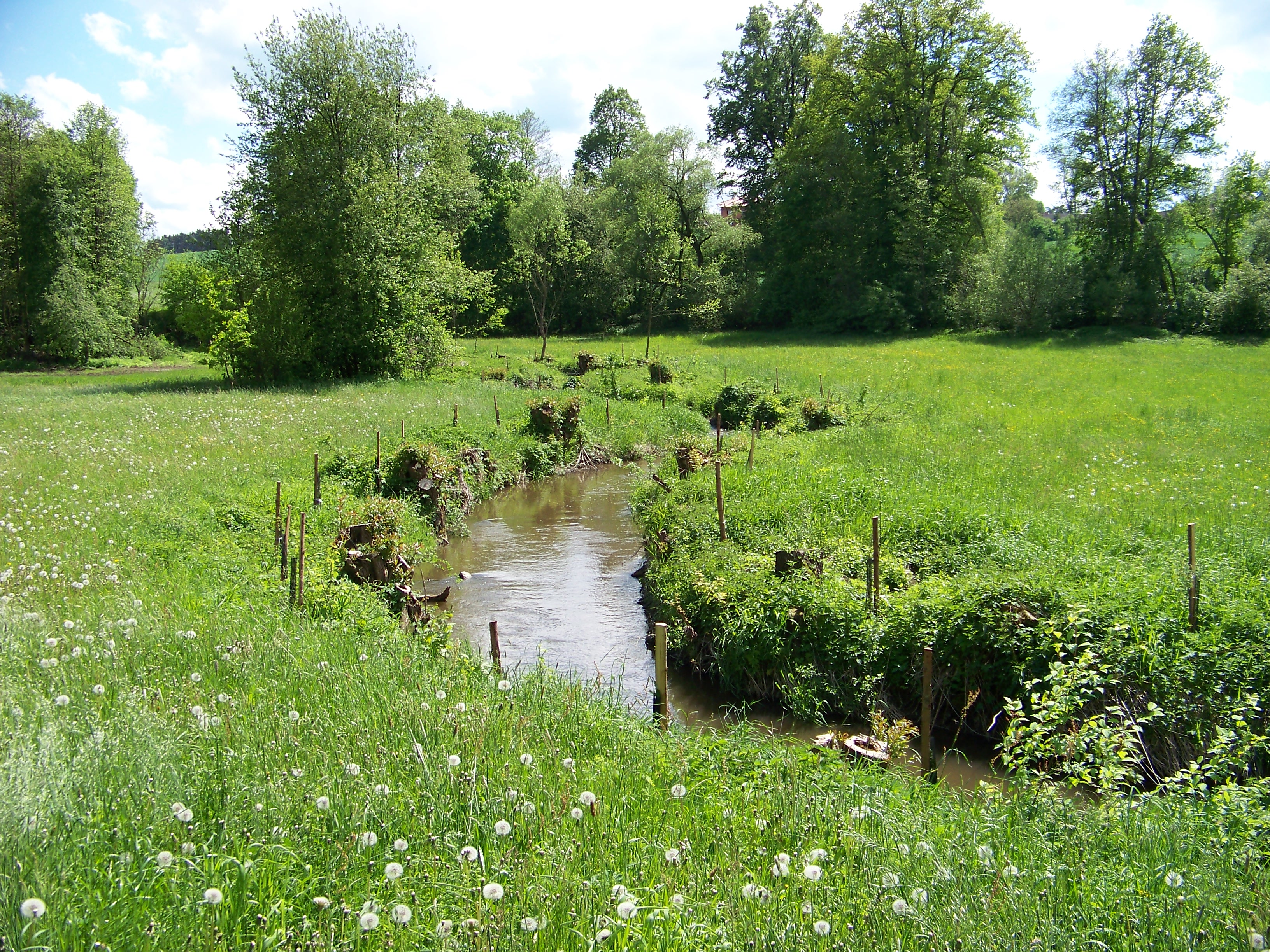 Jesenice, Příbram District, Central Bohemian Region, the Czech Republic. Sedlecký Creek. - OpenStreetMap(Info)